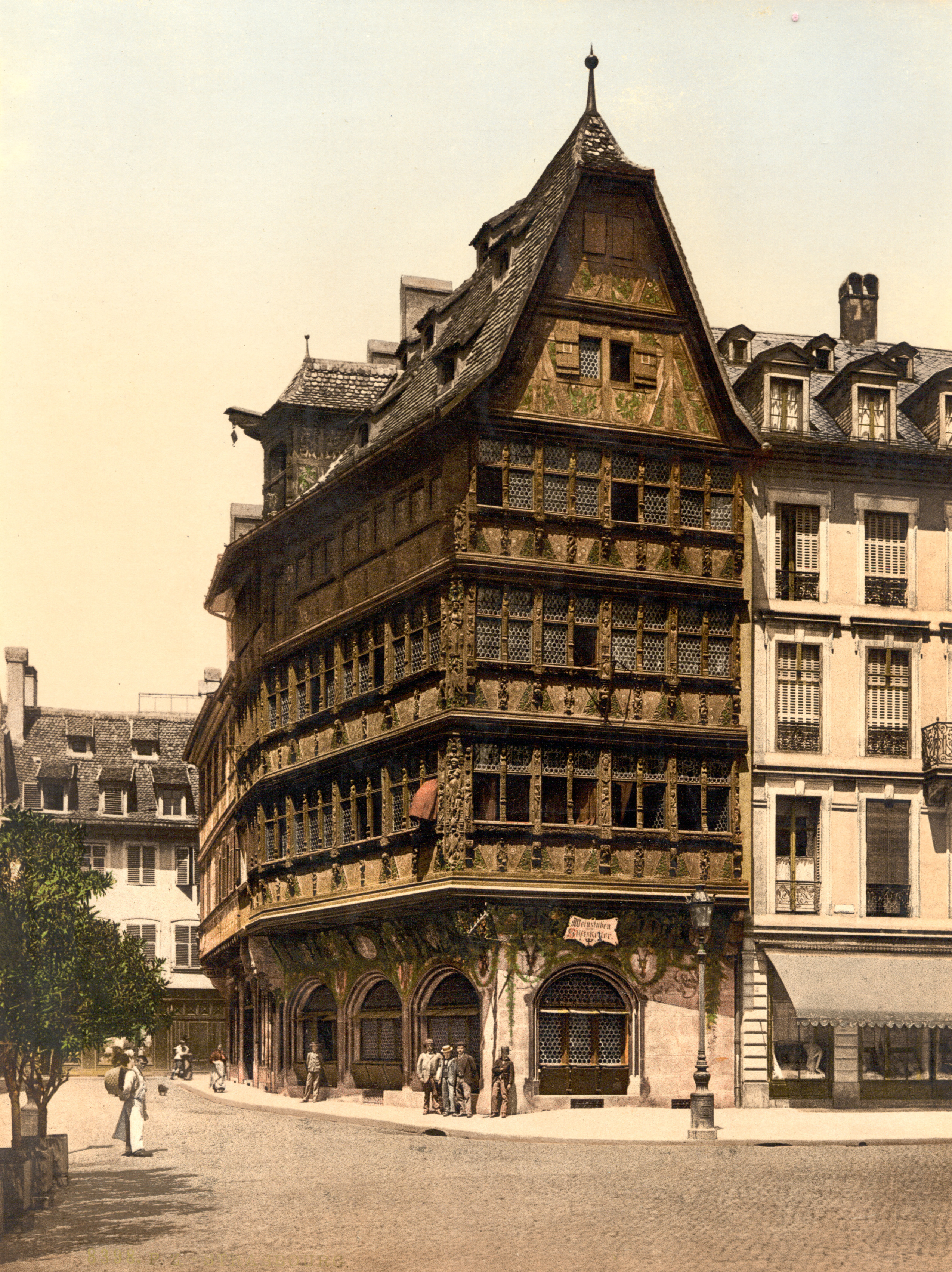 Altehaus Strassburg Alsace Lorraine Germany between ca. 1890 and ca. 1900